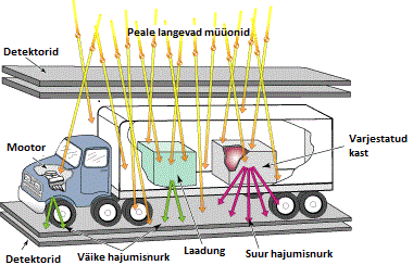 Muon Radiography - muons coming from the sky are detected above and below a truck. Muons passing through high-atomic-number materials (like uranium and plutonium) are scattered more than those passing through other materials